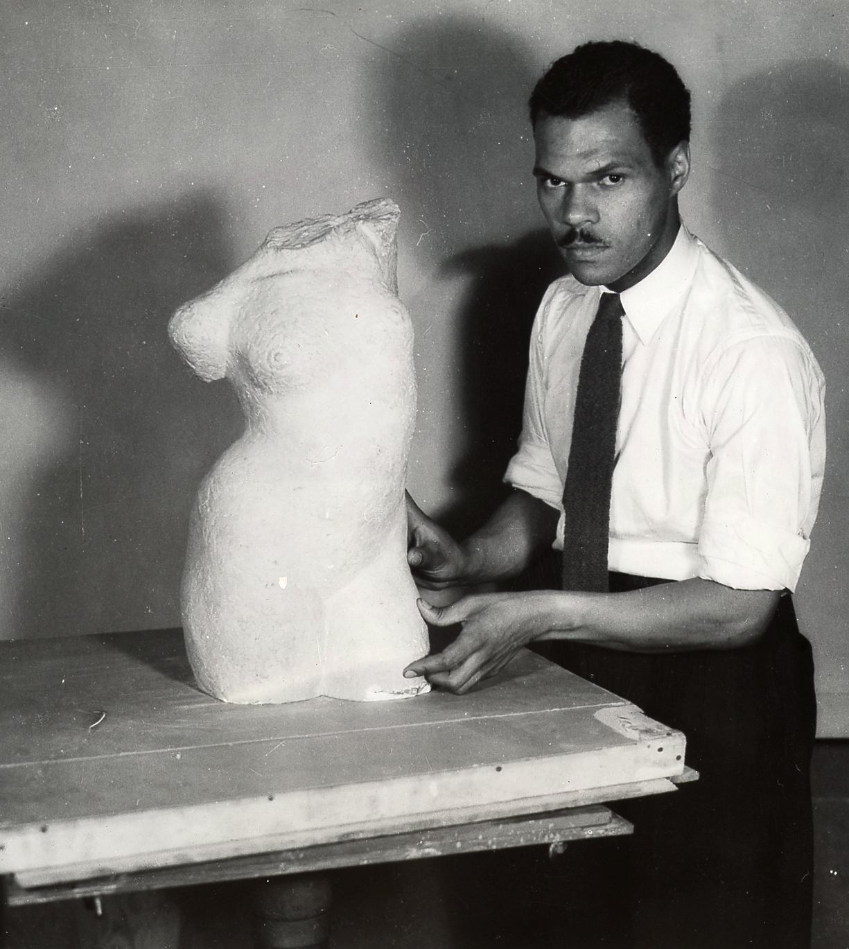 Bannarn standing with sculpture. Identification on accompanying label (typewritten):23334-D, New York, New York Henry Bannarn, negro sculptor of the N.Y.C. WPA Art Project and a teacher at the Harlem Community Art Center, displays an example of his work.